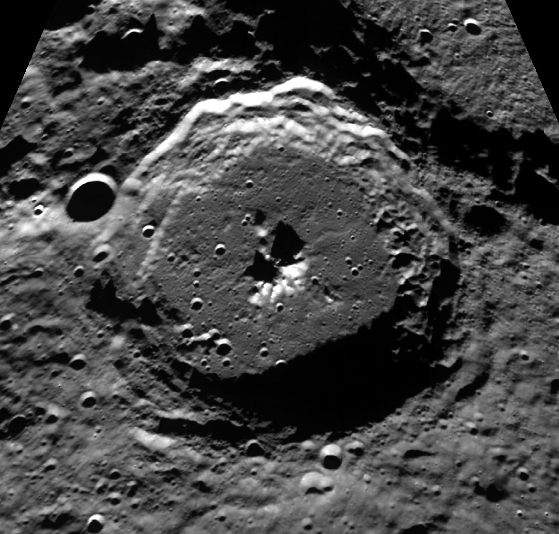 Image of farside moon crater Plaskett from Clementine b/w data